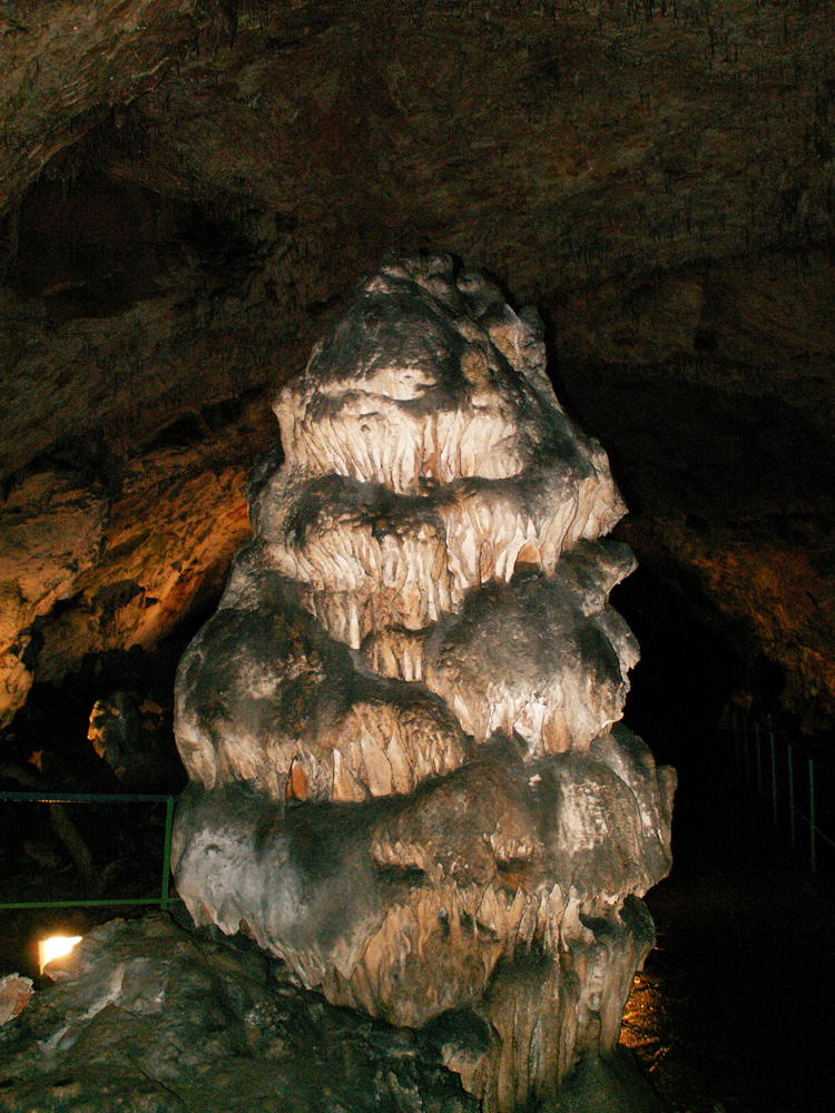 Saeva Dupka cave - the Hey Stack Stalagmite